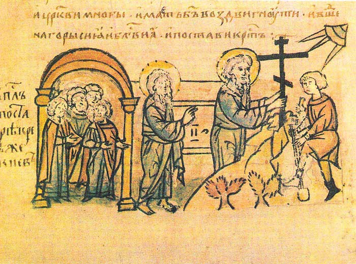 Saint Andrew erecting the cross on the hills of the Dnieper River; a prophecy of the city of Kiev.